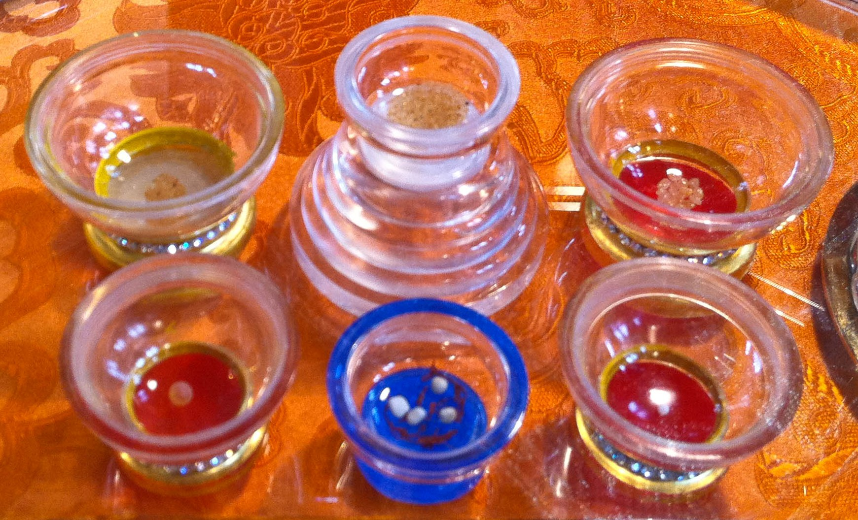 Buddhist relics, called Sariras or Ringsel. Presented at the Heard Shrine Relic Tour at Jamyang Buddhist centre in London.